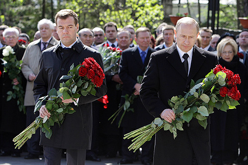 NOVODEVICHYE CEMETERY, MOSCOW. At the unveiling of a monument to First President of Russia Boris Yeltsin.